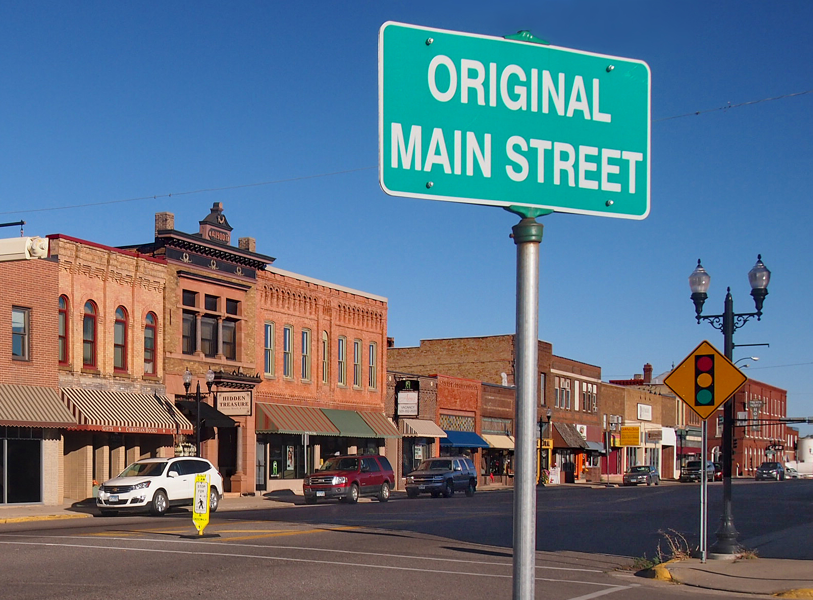 Original Main Street Historic District, Sauk Centre, Minnesota, USA. View northwest from southeast corner of Main & 4th St S.